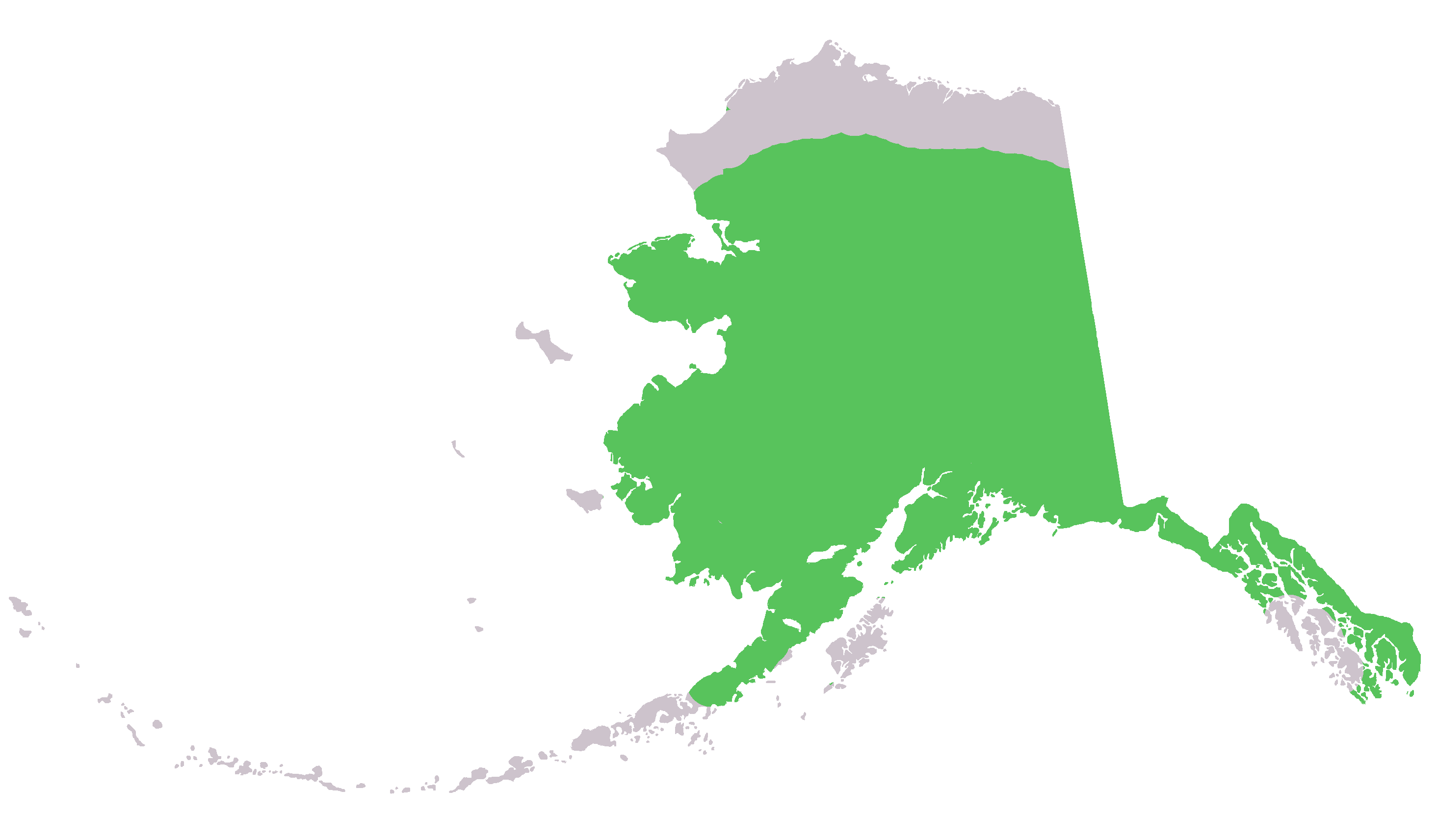 Range of Lynx canadensis in Alaska. Distribution in Southeast Alaska is very approximate, the sources say they're not on all the islands but they don't specify which.